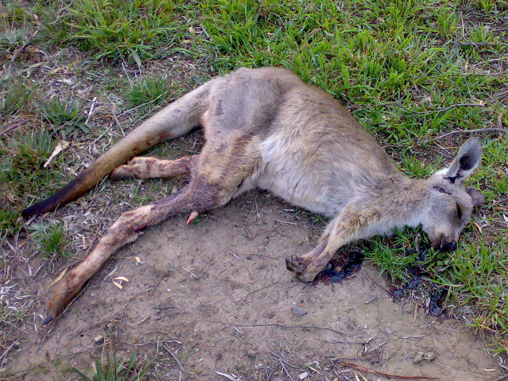 Roadkill Kangaroo